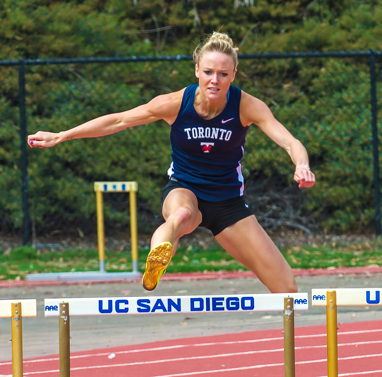 Won the 400m hurdles in 56.94 - Triton Invitational 2013 Sarah Wells